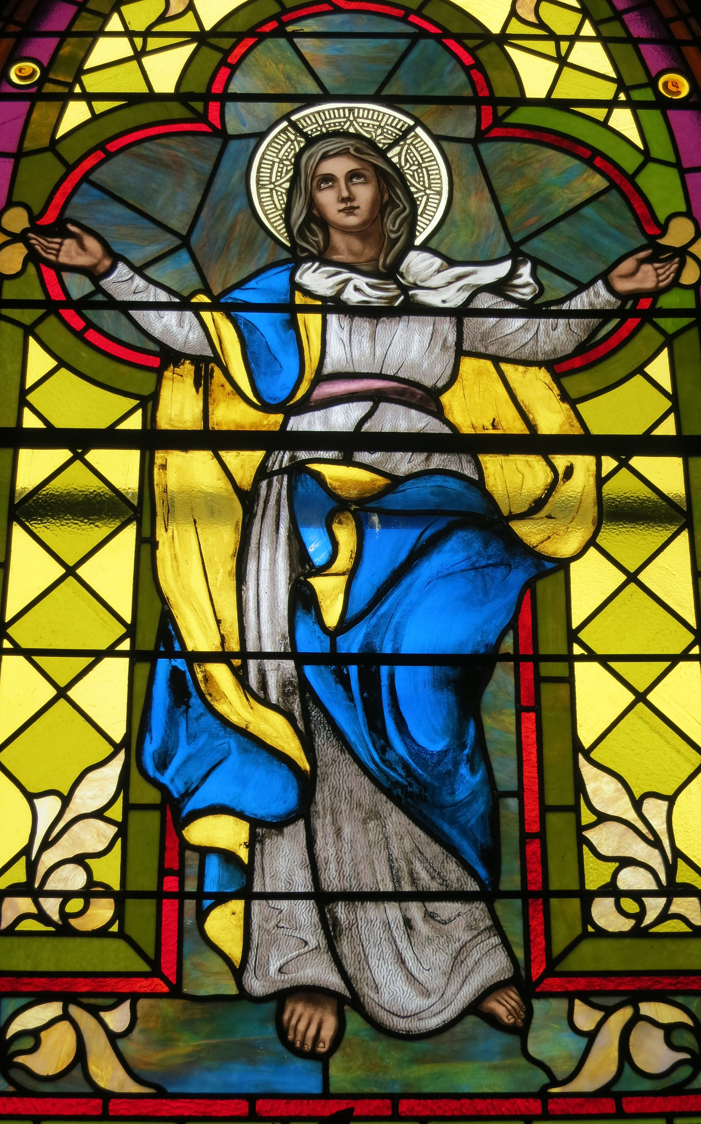 Church of the Sacred Heart (Coshocton, Ohio) - stained glass, Immaculata